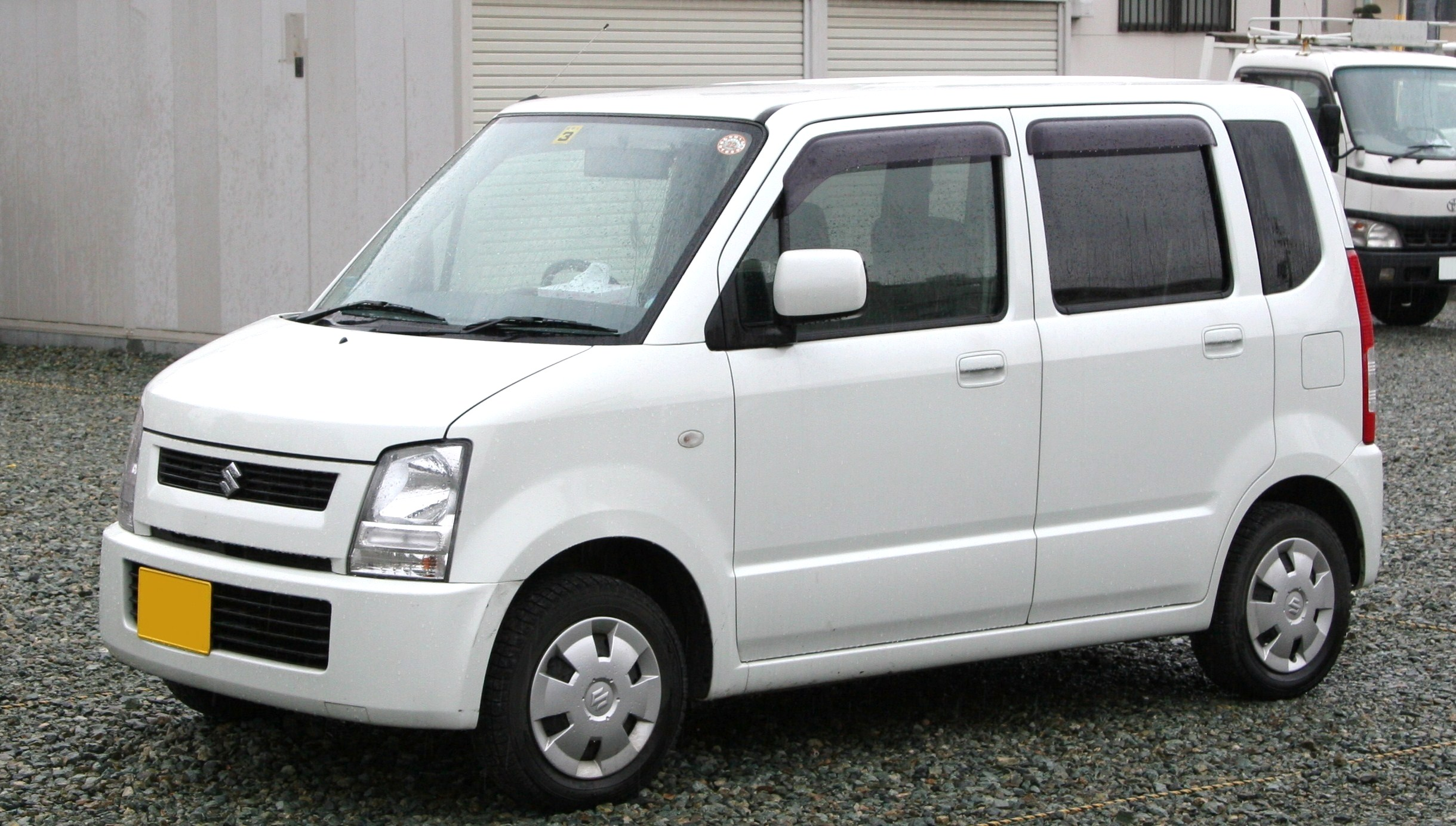 Suzuki Wagon R